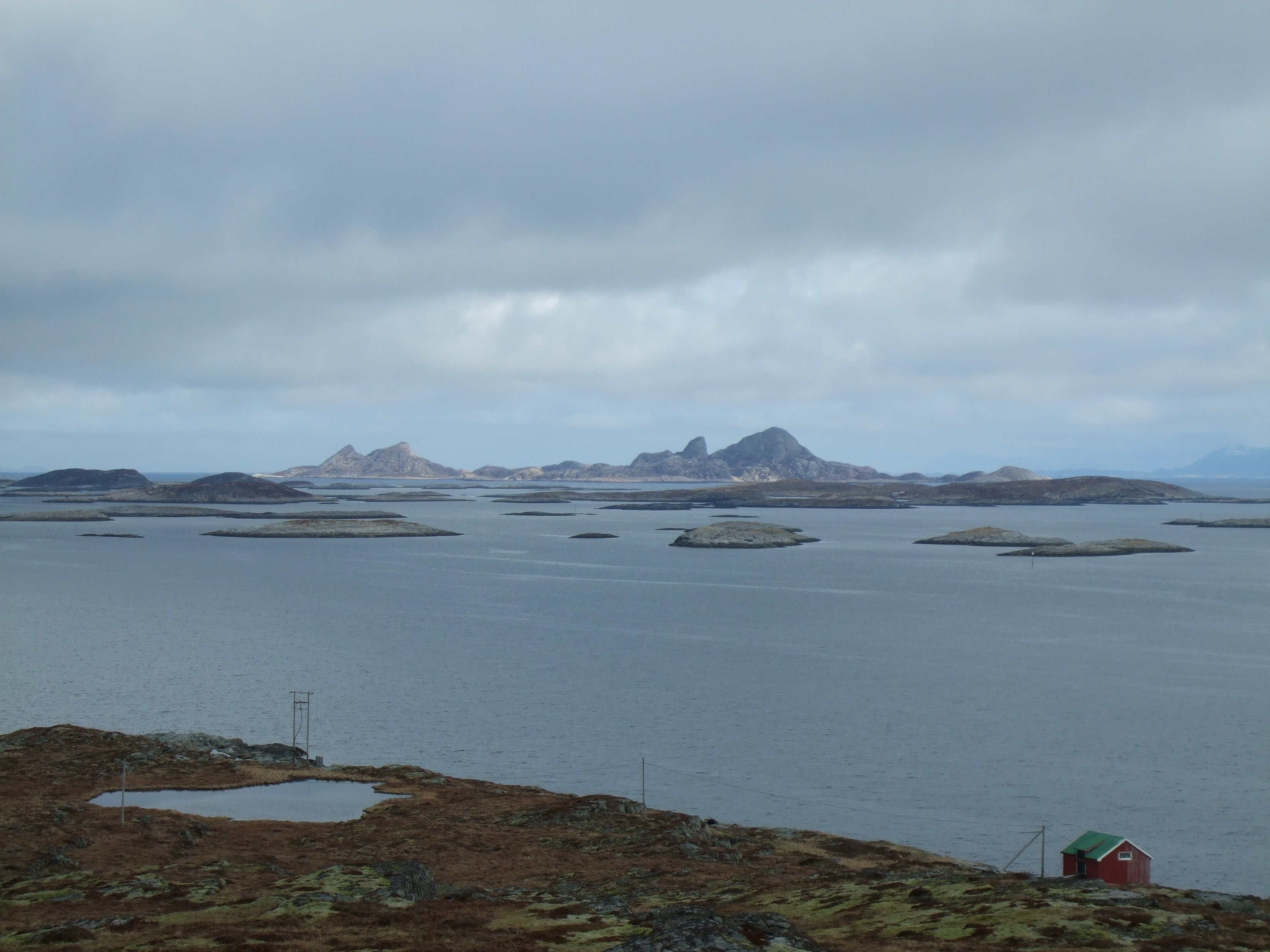 The islands of Selvaer seen from Traena